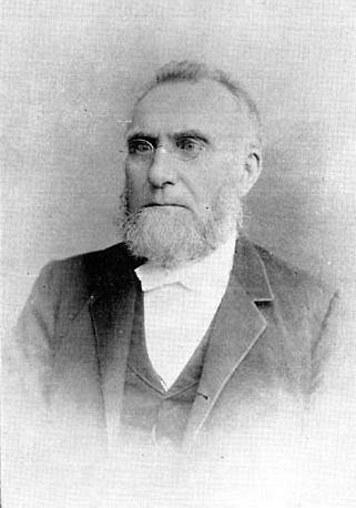 Edward Hartley Dewart (1828-1903) was a teacher, Methodist clergyman, author, and editor of the Christian Guardian